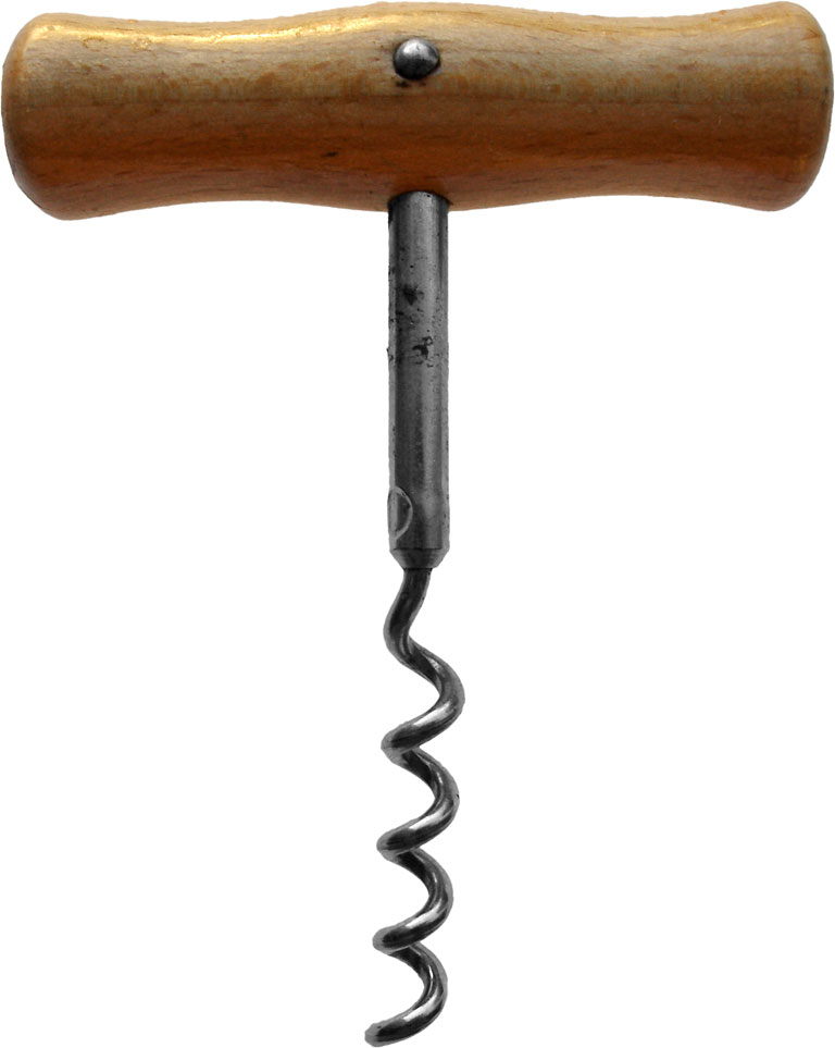 A basic corkscrew. Corkscrew (tool), basic version